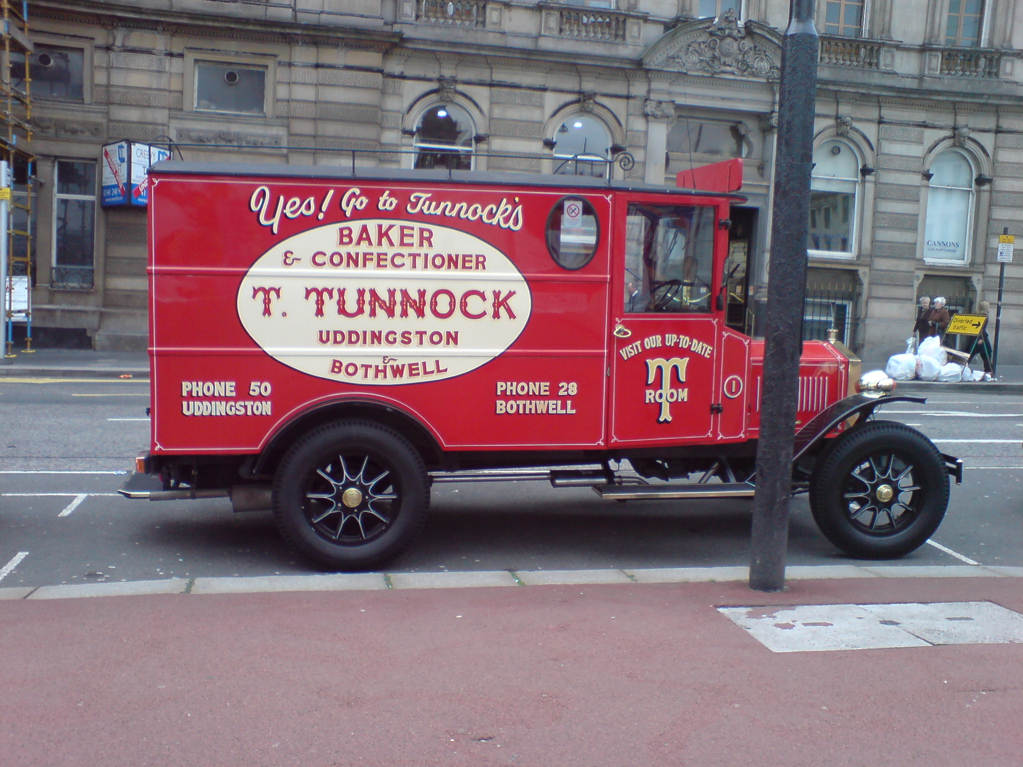 A picture of a Tunnocks Bakery old style van taken in George Square, Glasgow